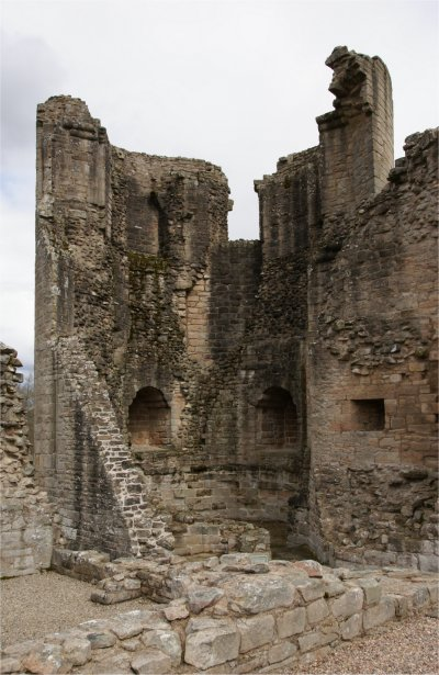 Warden's Tower, Kildrummy Castle, Aberdeenshire, Scotland.